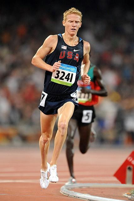 Matt Tegenkamp USA